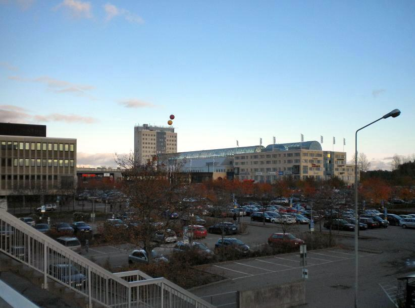 Täby Center, Täby, Sweden